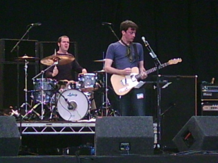 Graham Coxon (and his band), Leeds Festival, England, 2005